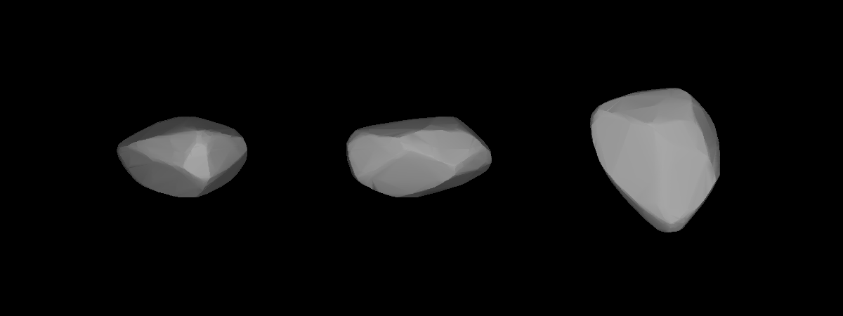 A three-dimensional model of 1088 Mitaka that was computed using light curve inversion techniques.